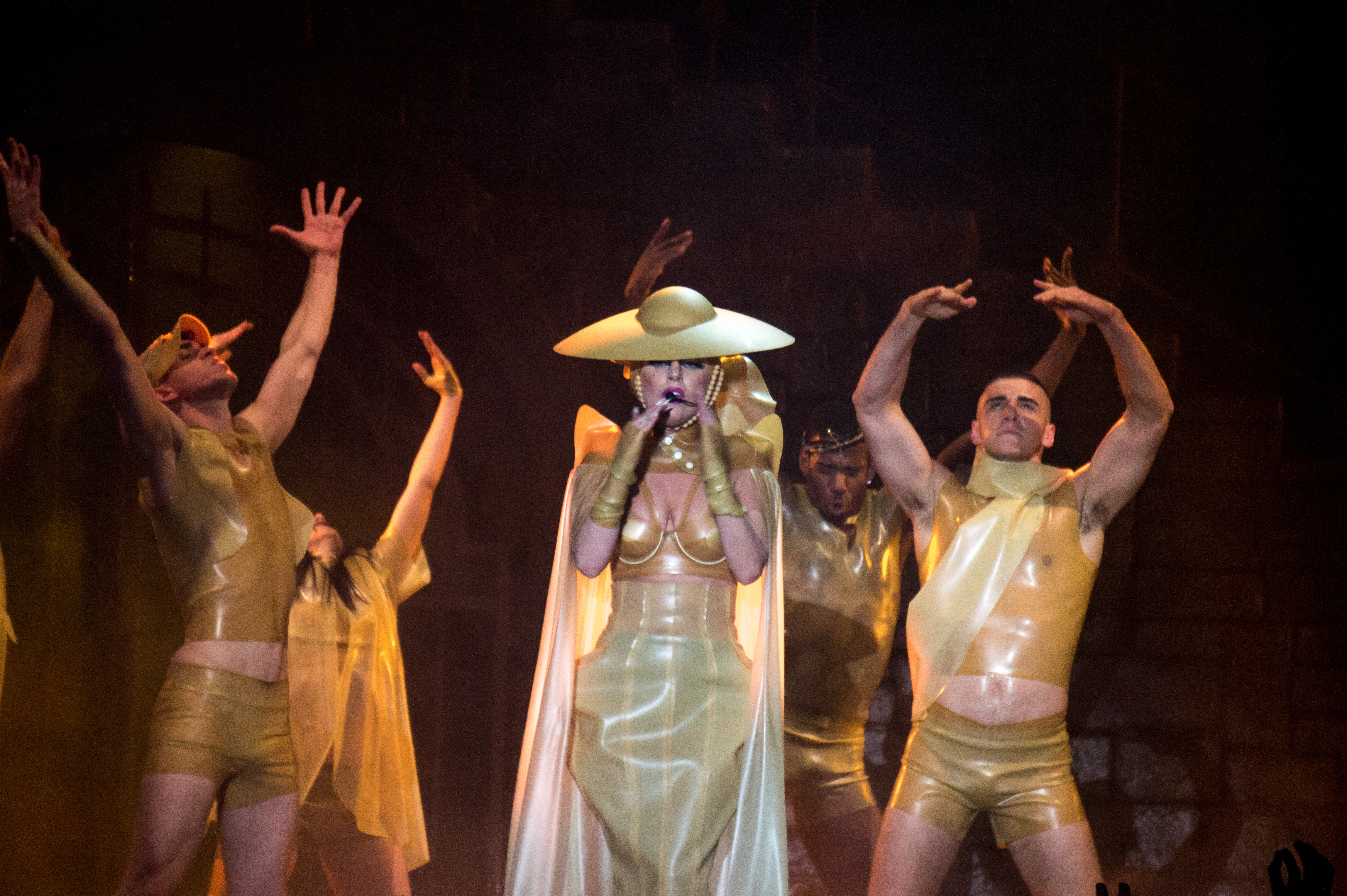 Lady Gaga performing "Black Jesus (Amen Fashion)" druing The Born This Way Ball Tour in Perth, Australia.